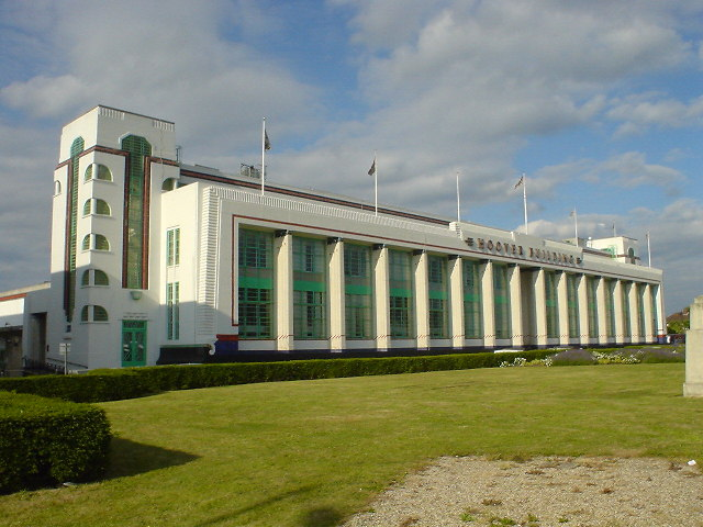 Art Deco facade of the Hoover Building beside the A40 - now a Tesco supermarket